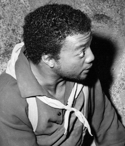 Photo of Paul Winfield and Mark Slade from the television program The High Chaparral. Winfield guest stars as an army deserter who seeks the help of Billy Blue Cannon (Slade) to falsify a story about his being mistreated.